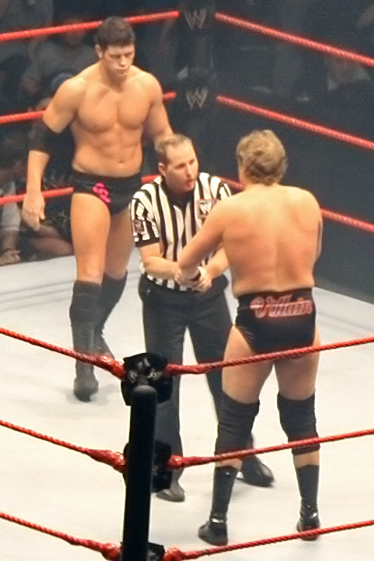 William Regal (Darren Matthews) is backed up and admonished by the referee following some heel behaviour during his match against Cody Rhodes. Taken during the WWE Raw - Survivor Series Tour, at Rod Laver Arena, Melbourne Park, Melbourne, Australia. Regal wrestled Rhodes on the night; the match was won by Rhodes pinning Regal following a DDT.